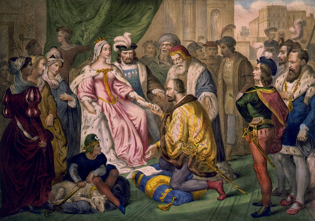 Christopher Columbus kneeling in front of Queen Isabella I of Castile.